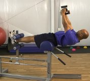 Russian Twist exercise for football strength.